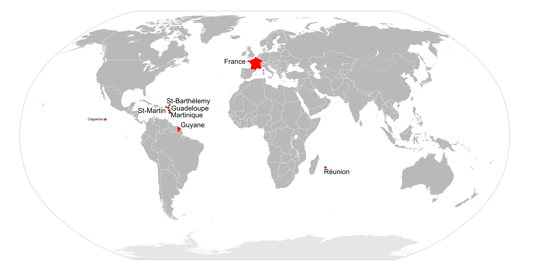 In red, where the postage stamps of France are used on posted mail since February 2007 (Scattered islands linked to TAAF). Big size names : territories with permanent population. Small size names : territories with non-permanent population, mainly scienfitic (used of stamps of France quite hypothetical, but not impossible (covers reproduced in Pierre Couesnon's article, "Les îles éparses : un étrange rattachement aux TAAF", Timbres magazine 61, October 2005, pages 73-76). Created from the 9 January 2007 04:37 version of Image:BlankMap-World6.svg.